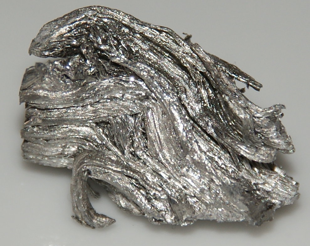 Ultrapure holmium, 17 grams. Original size in cm: 1.5 x 2.5